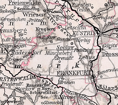 Detail from a map of Brandenburg.